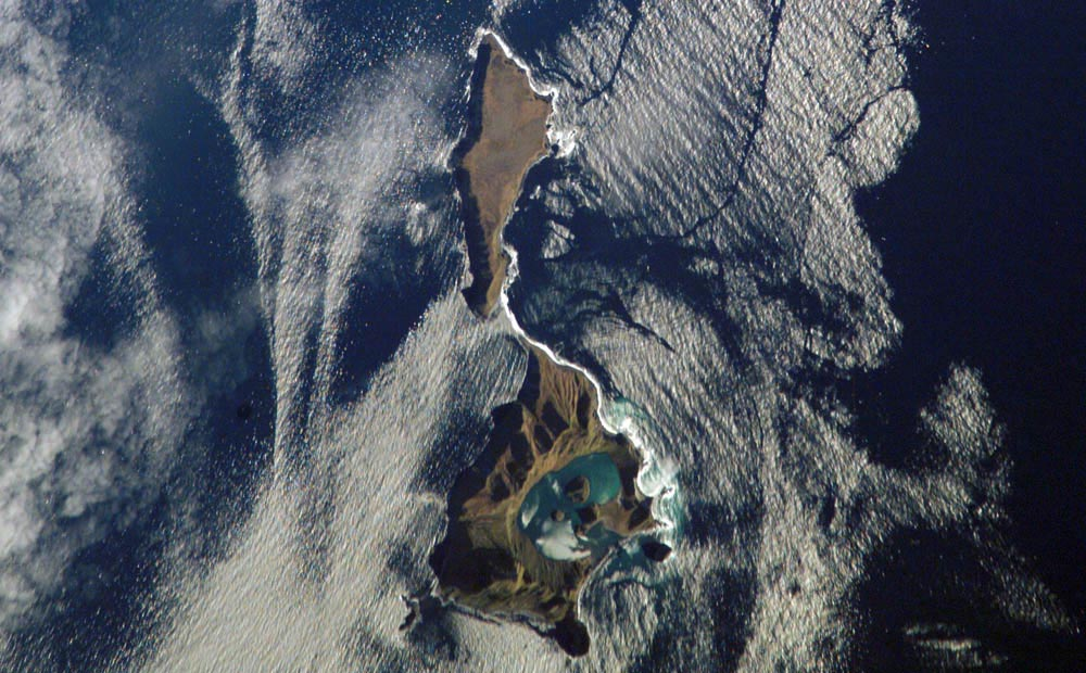 NASA astronaut image of Usishir, Kuril Islands